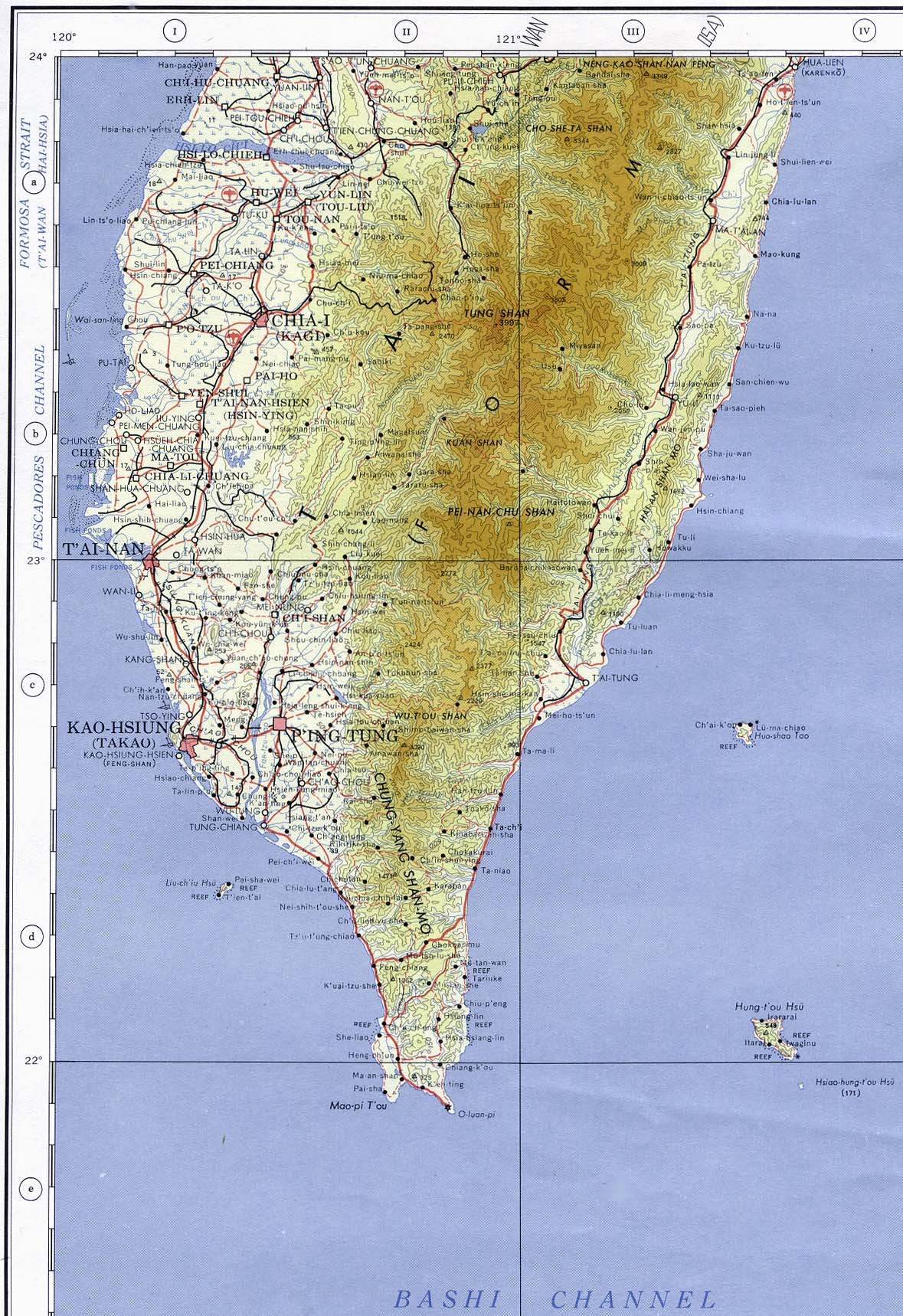 Original Scale 1: 1,000,000. Printed by Army Map Service, Corps of Engineers, 1958